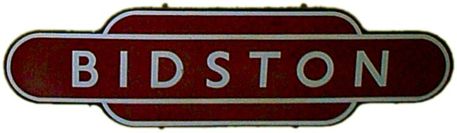 British Railways London Midland Region "totem" sign for Bidston station.